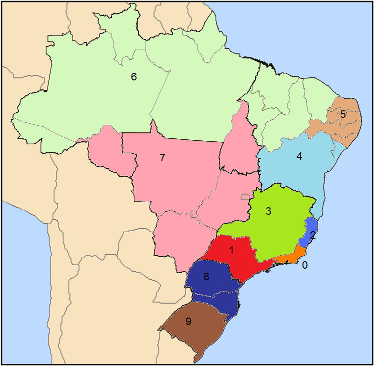 Map of brazilian postal regions.